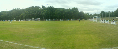 The Scholars' Ground, home of Chasetown Football Club